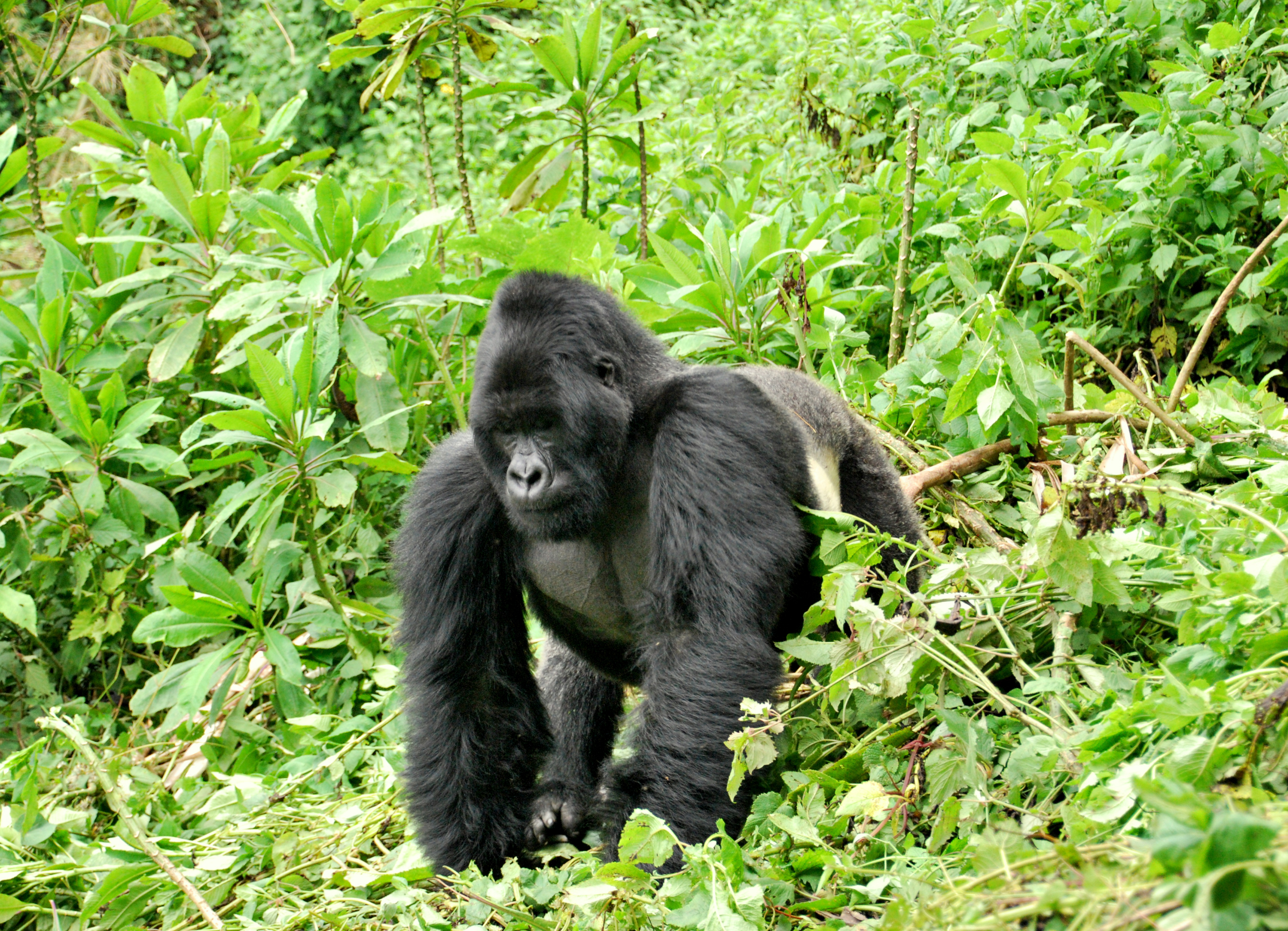 Guhonda arrives to sort out a fight... and sort out the visitors. Guhonda is the leader of the Sabyinyo group of mountain gorillas. Volcanoes National Park, Rwanda.